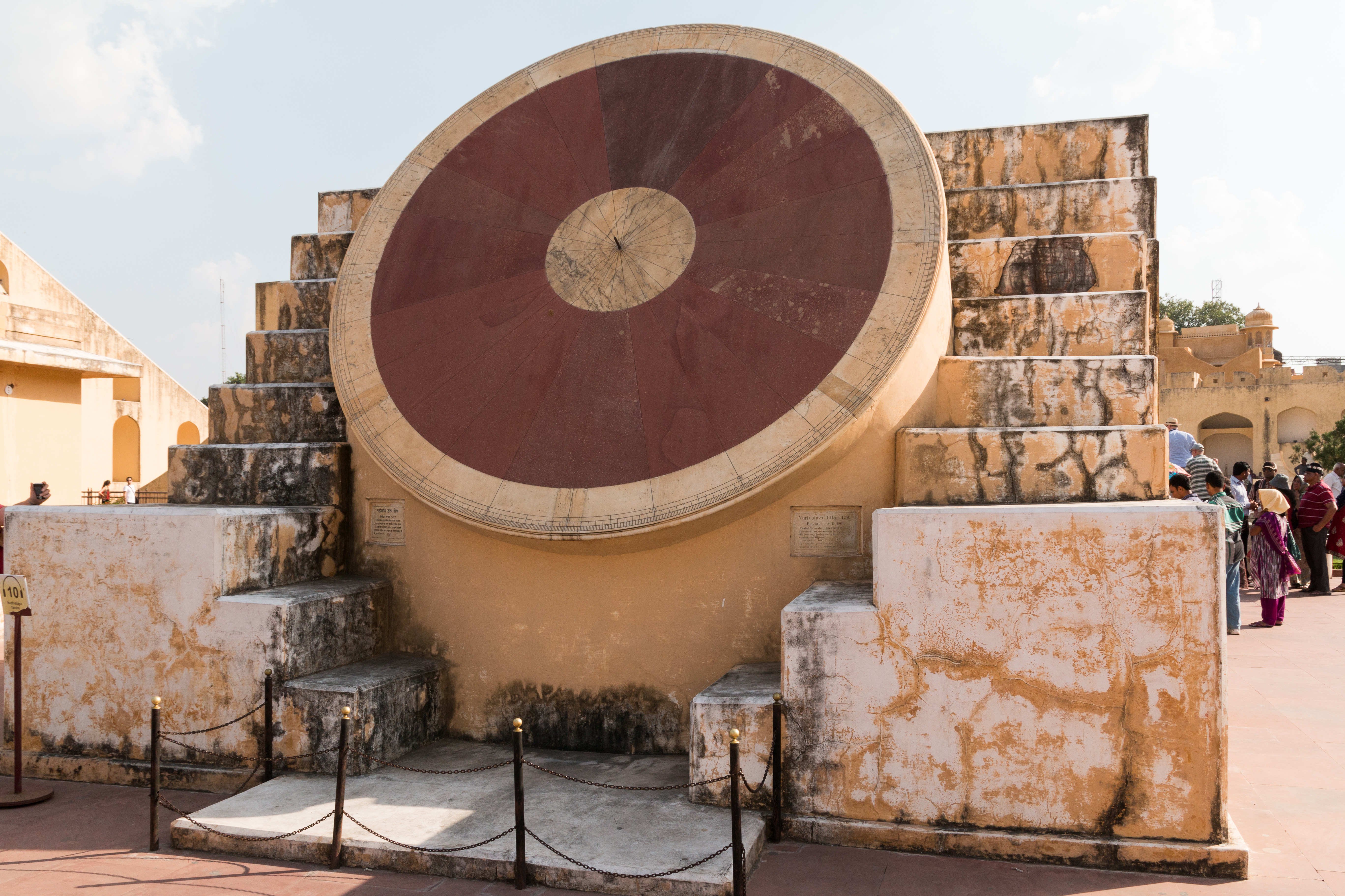 Nadivalaya Yantra is a double equatorial sundial. This sundial is utilsable from the March equinox to the September one. (We are in October and you can't read the local time).